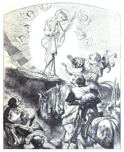 Illustration for the line "And there stood St. Ermengarde, drest all in white" in "The Lay of St. Odille", by Richard Barham.